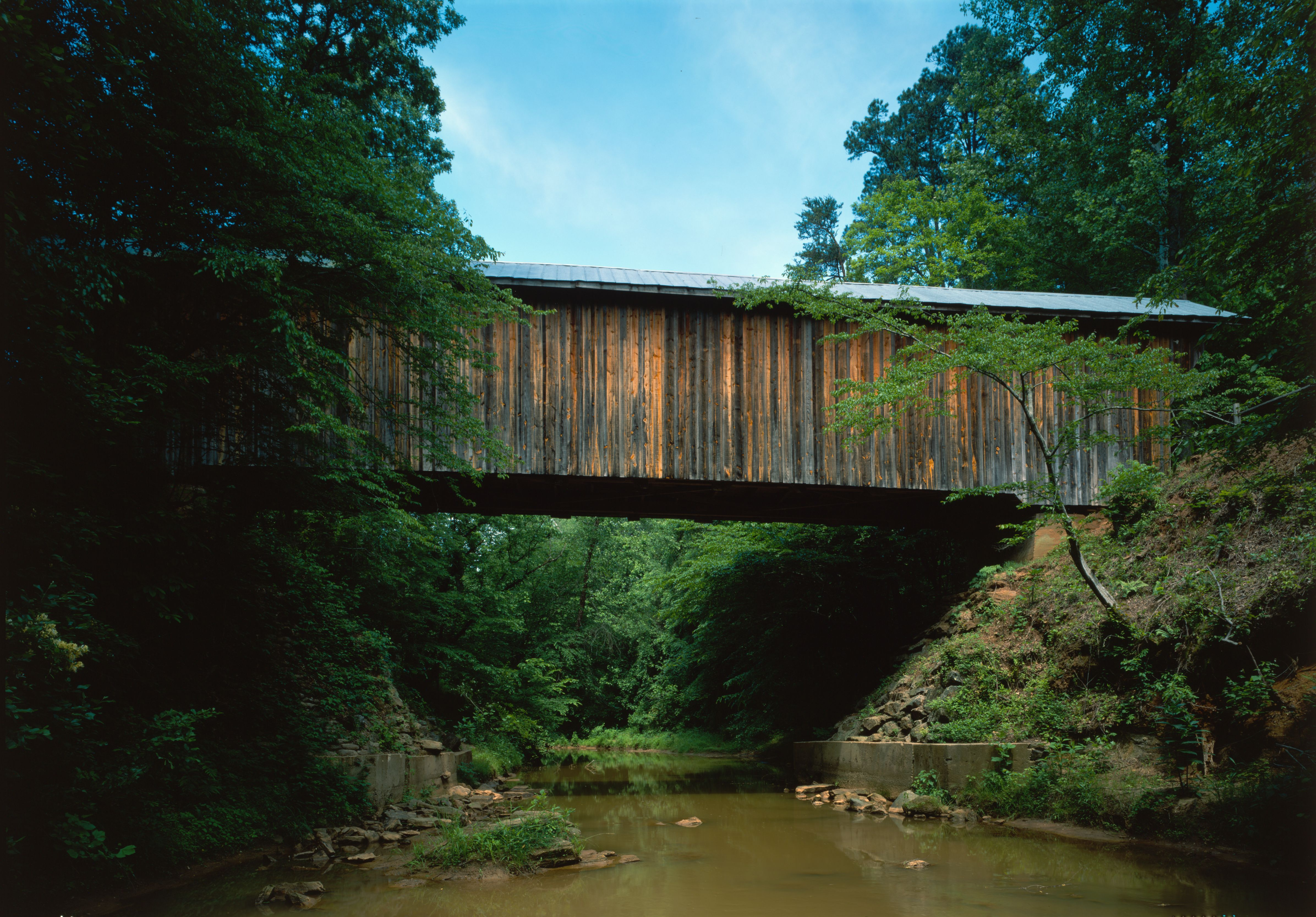 Bunker Hill Bridge, Spanning Lyle Creek, bypassed section of Island Fo, Claremont vicinity, Catawba County, NC